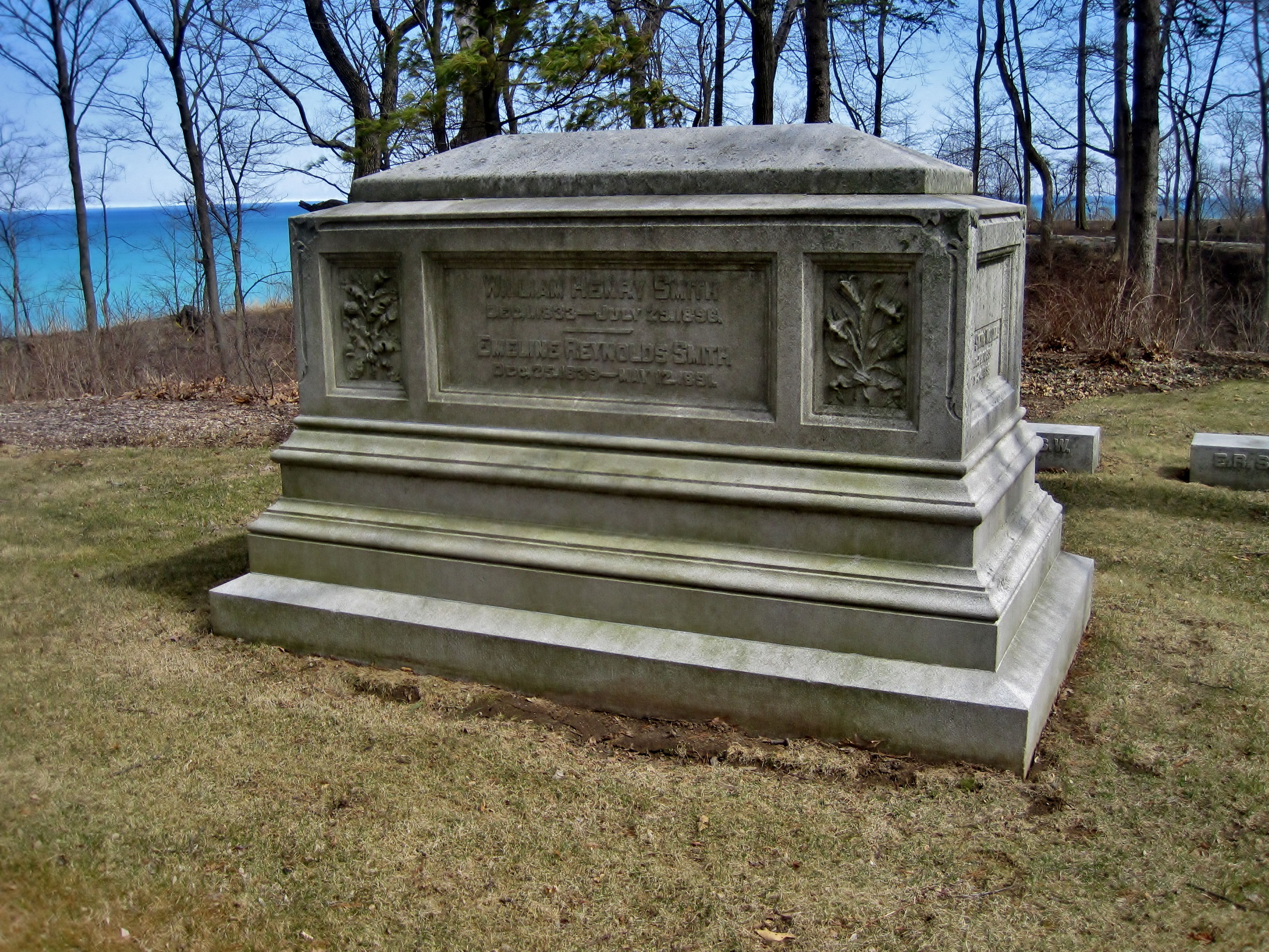 Final resting place of William Henry Smith, Lake Forest Cemetery, IL